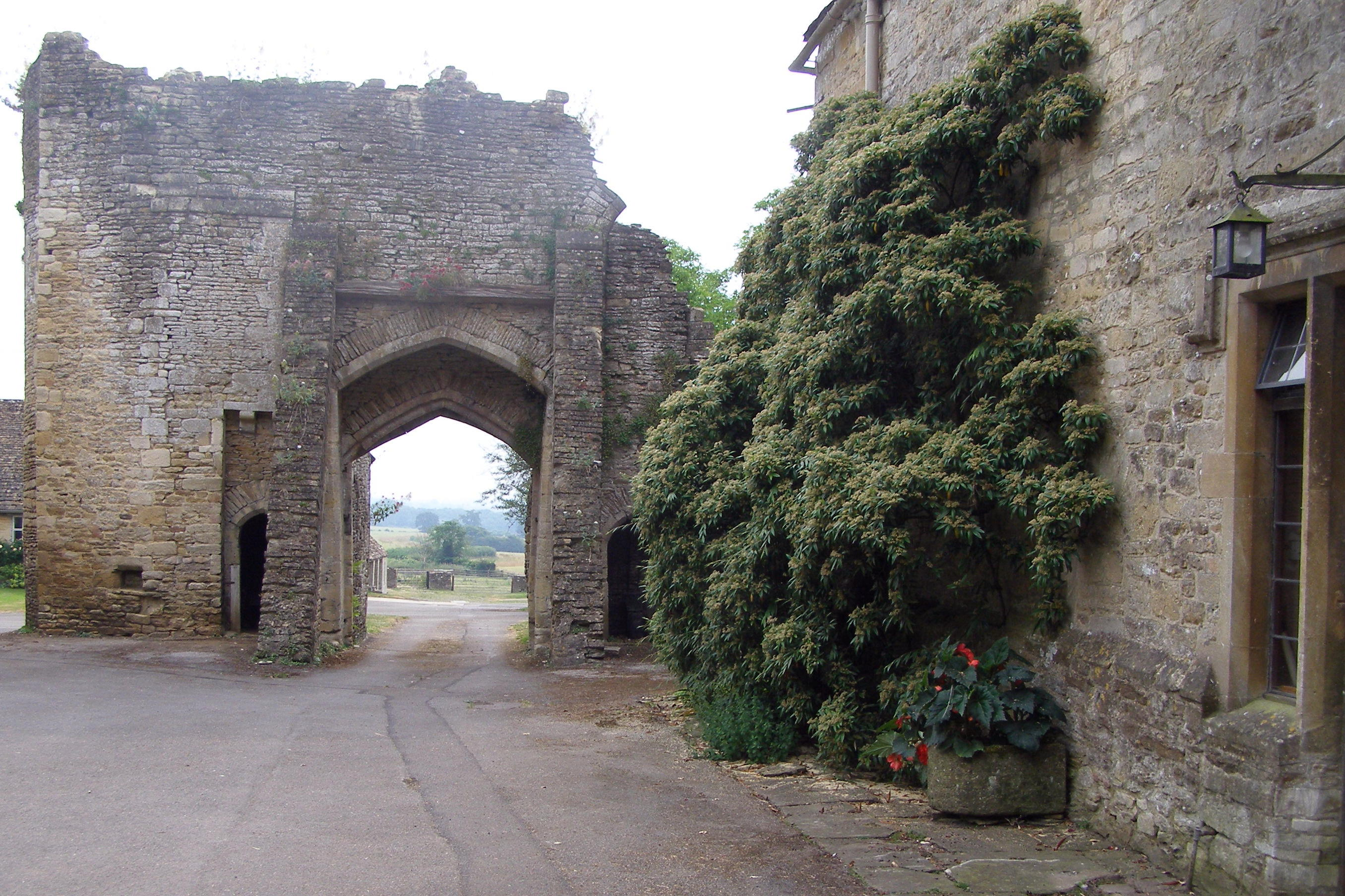 Photographer C. Michael Hogan licences this photo as described below photo taken in July, 2006 photo is of Beverston Castle gatehouse